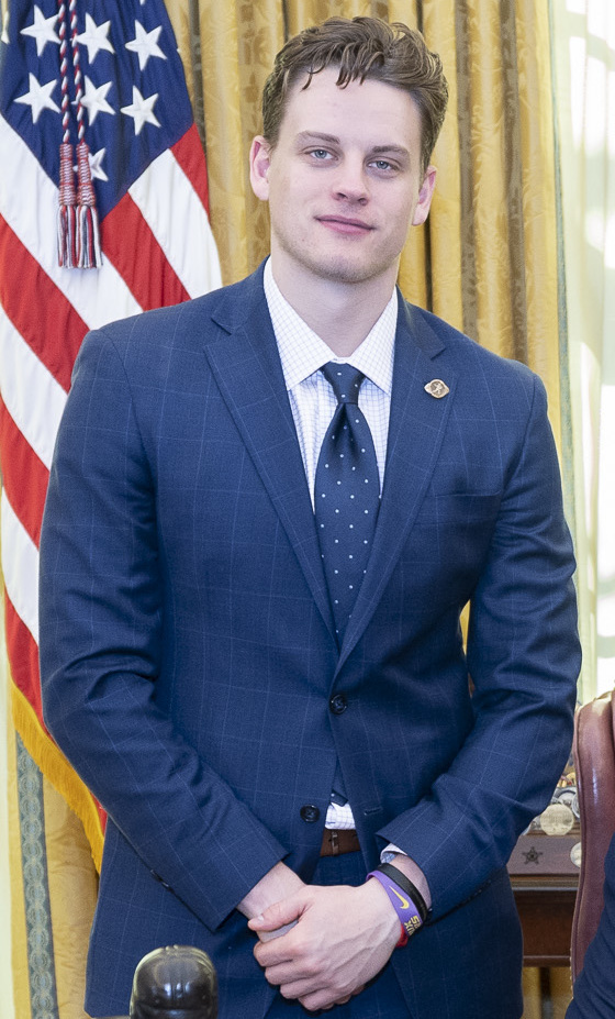 President Donald J. Trump welcomes LSU’s quarterback Joe Burrow to the Oval Office Friday, Jan. 17, 2020, of the White House. (Official White House Photo by Shealah Craighead)